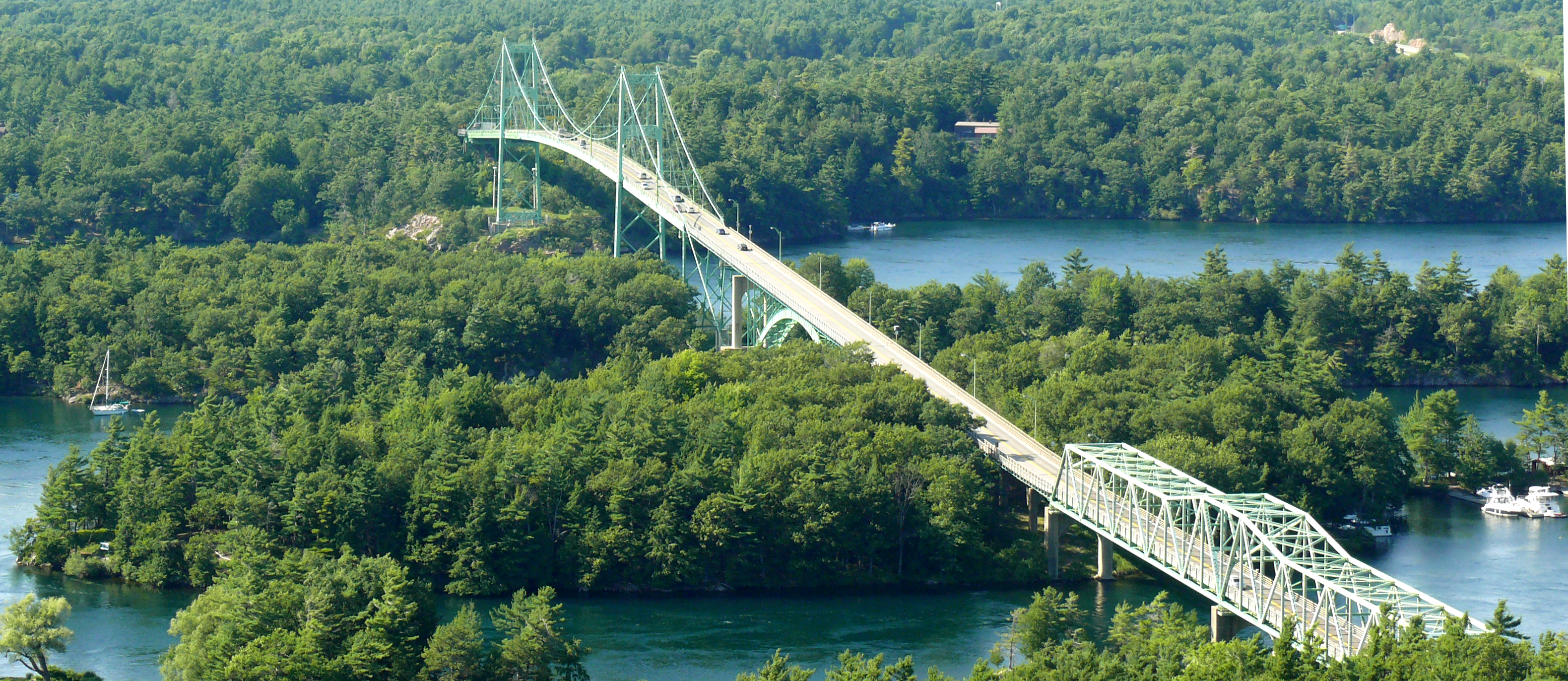 The Thousand Islands Bridge is an international bridge over the Saint Lawrence River connecting northern New York in the United States with southeastern Ontario in Canada in the Thousand Islands region.